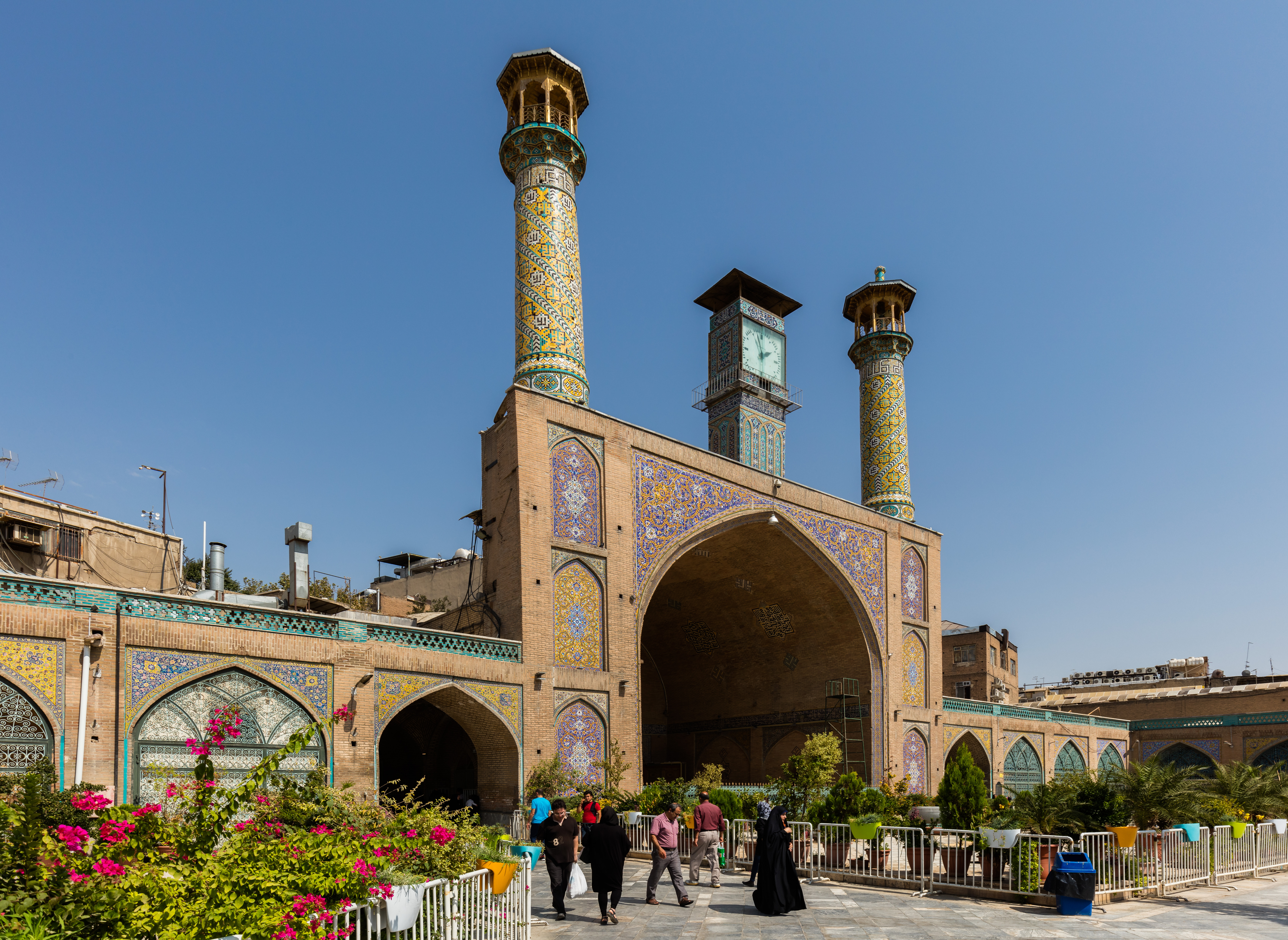 Shah/Imam Mosque, Tehran, Iran